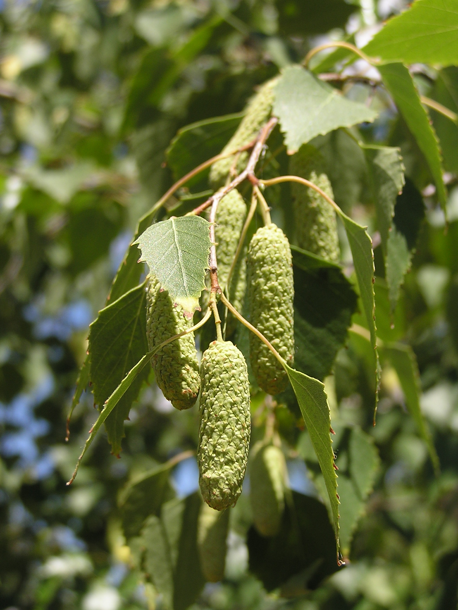 Betula pendula fruiting catkins